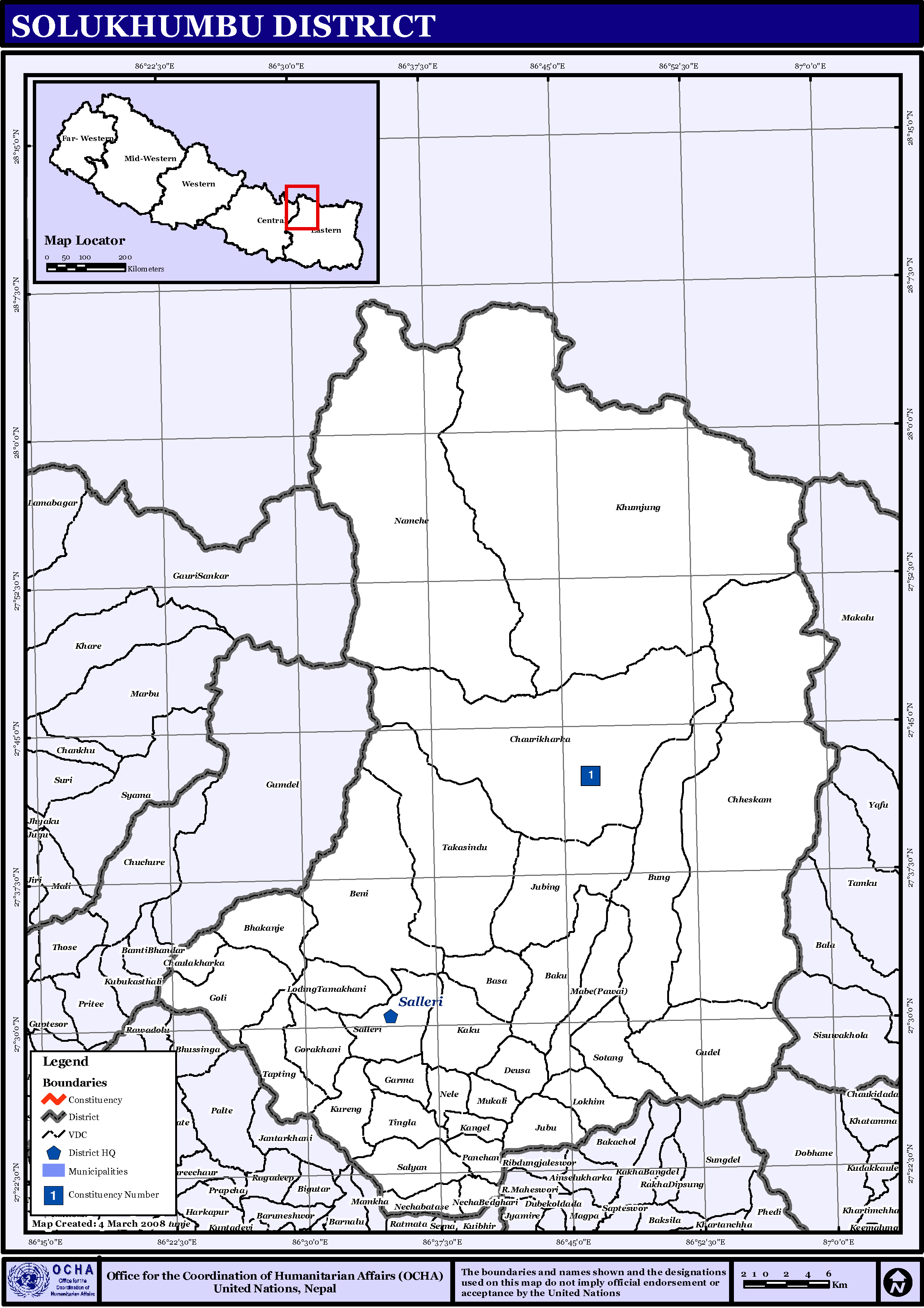 Map displaying Village Development Committees in Solukhumbu District, Nepal